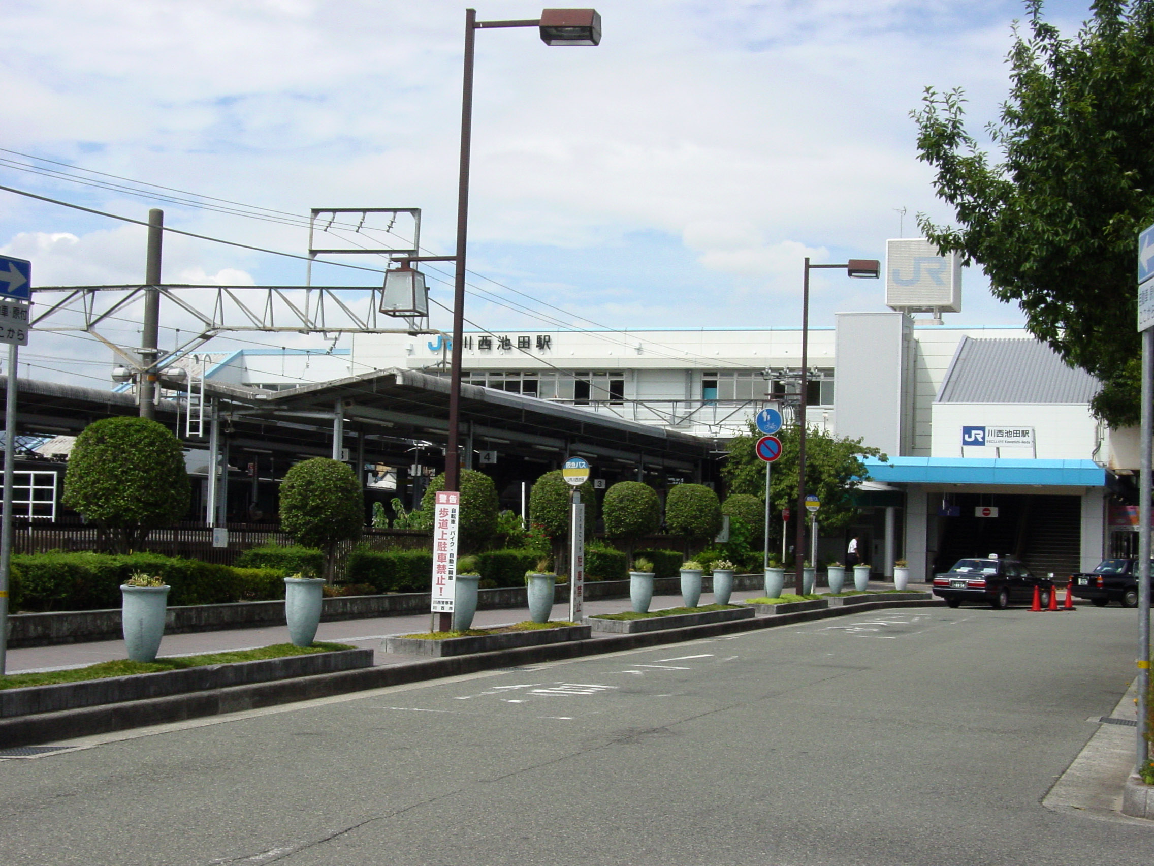 Kawanishi-Ikeda Station in Hyogo Prefecture, Japan